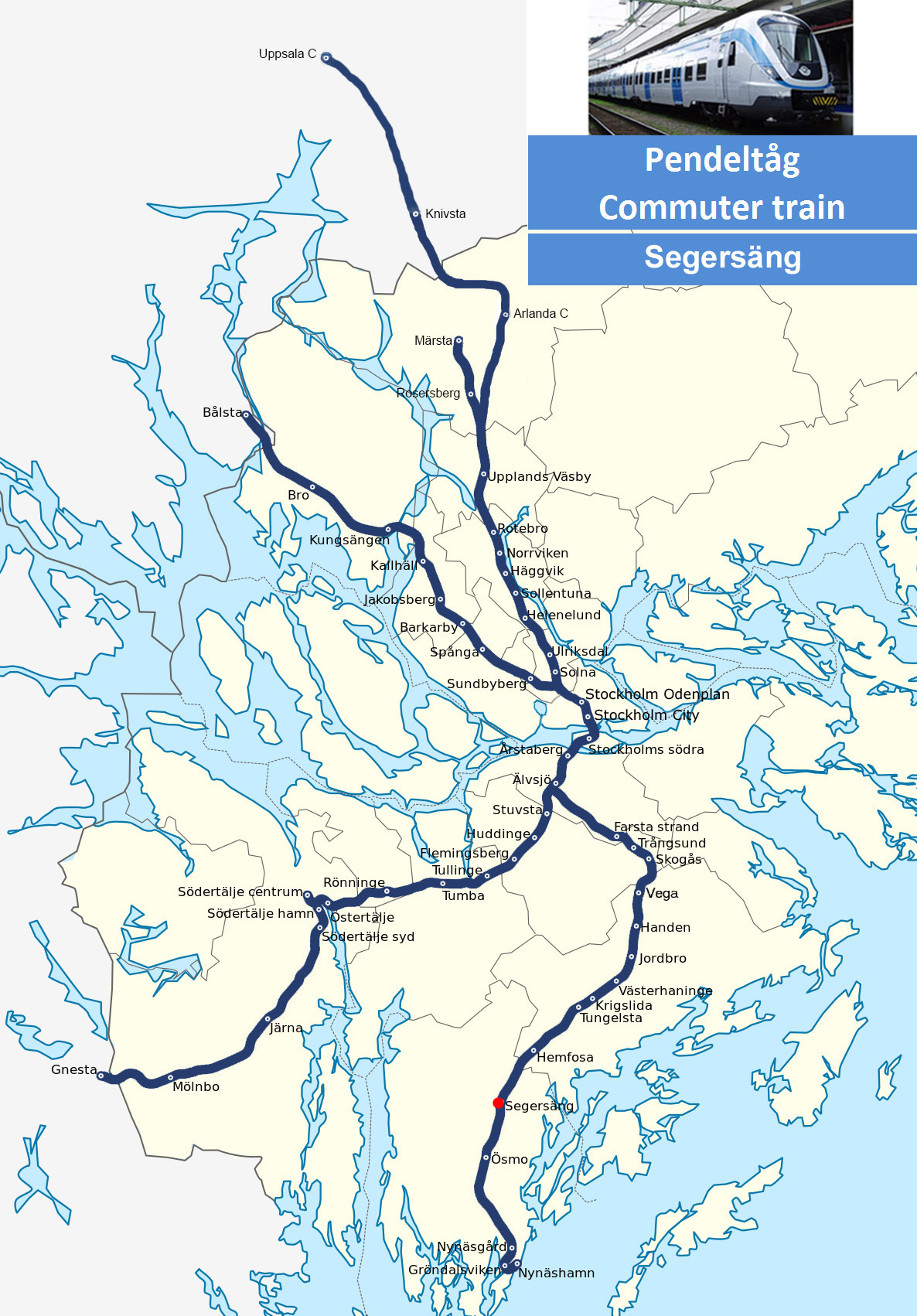 Segersäng station map